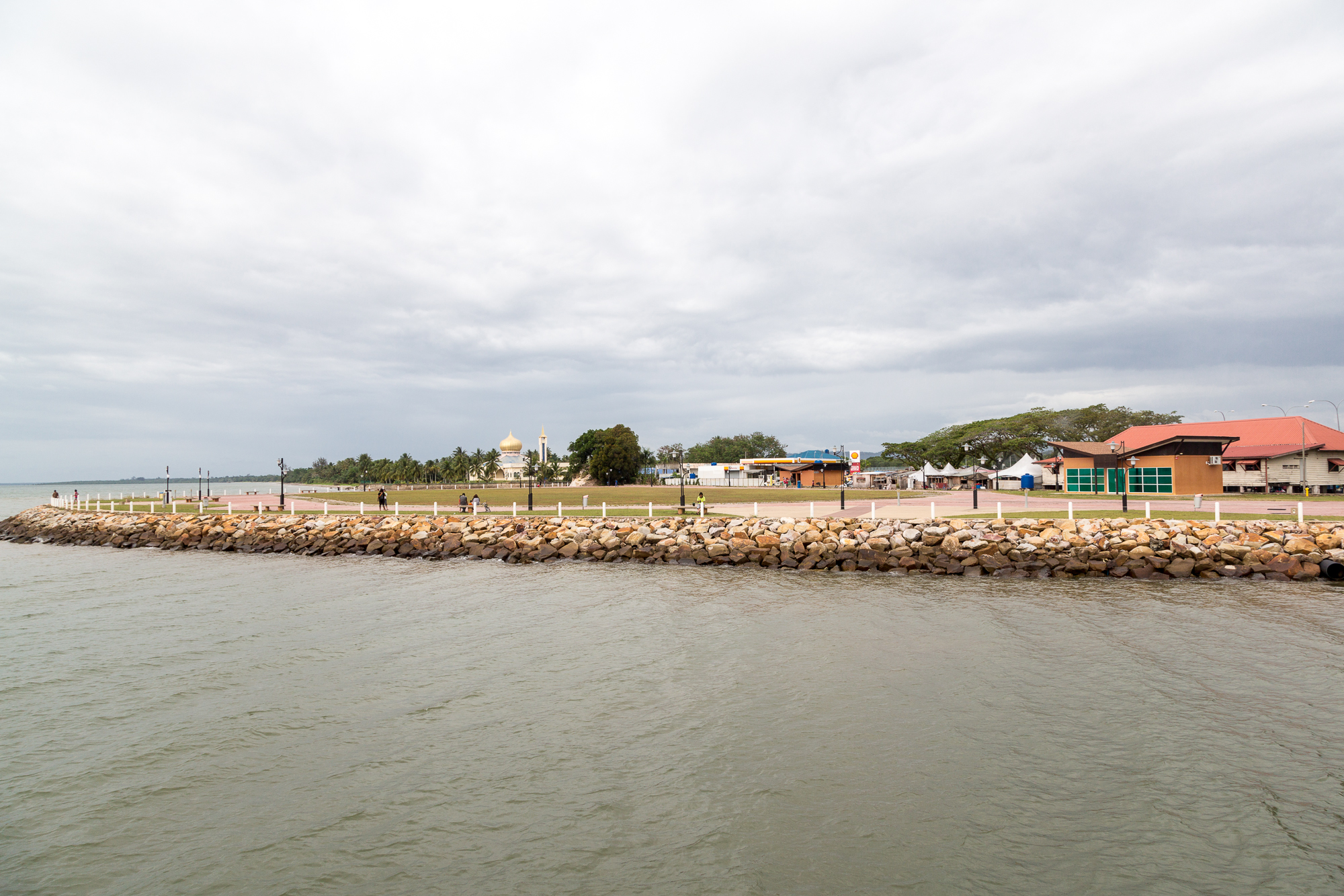 Sipitang, Sabah: Esplanad Sipitang